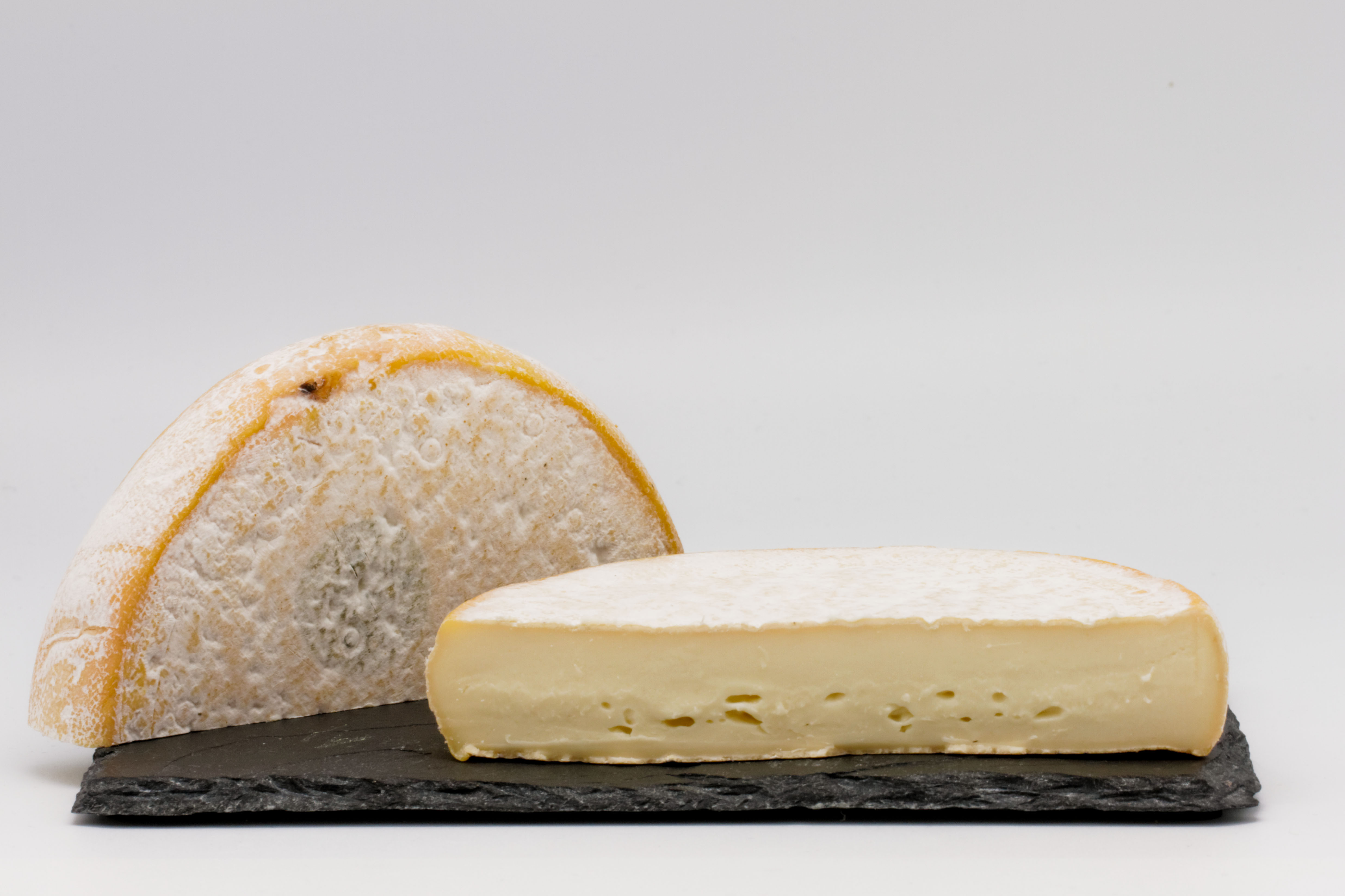 Reblochon